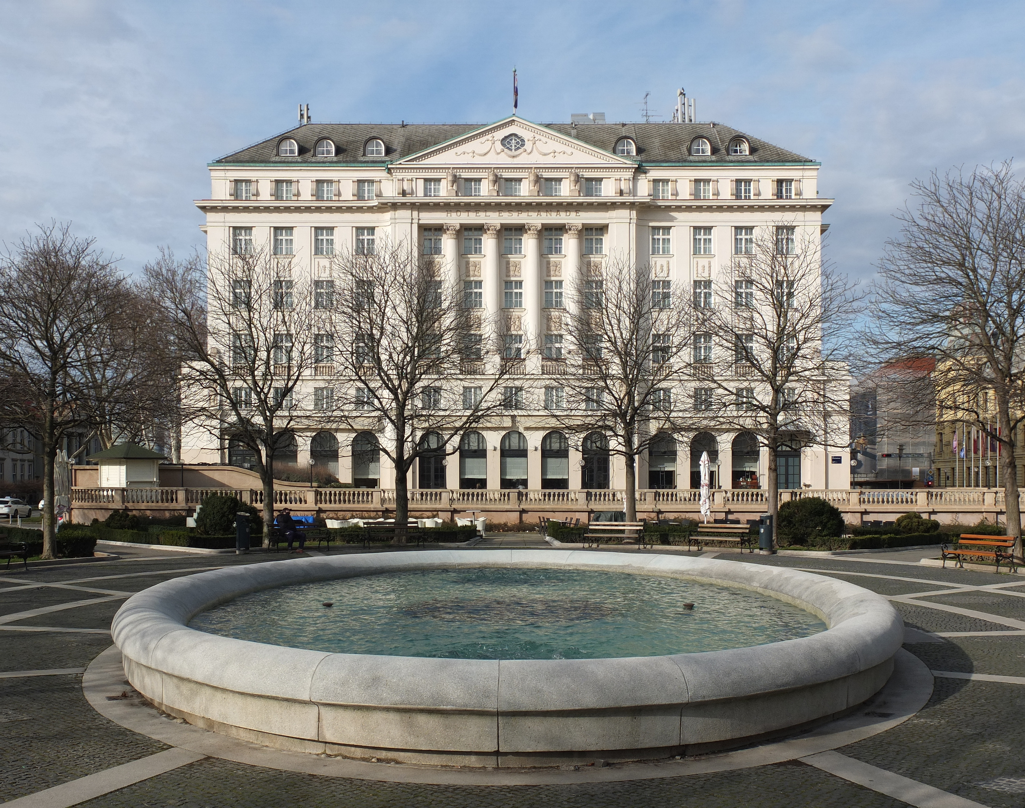 Hotel Esplanade in Zagreb, Croatia, Ul. Antuna Mihanovića 1, 10000 Zagreb. (View W)